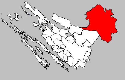 Location of Gračac municipality inside Zadar County